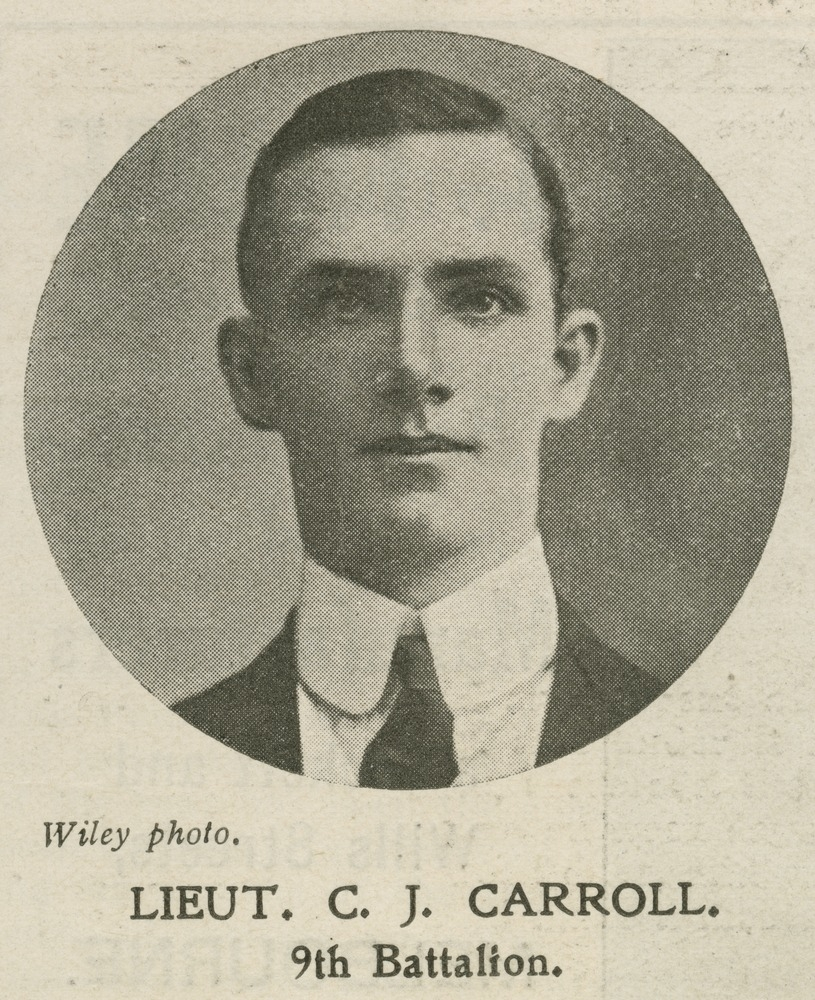 Portrait of Lieutenant C J Carroll, 1914